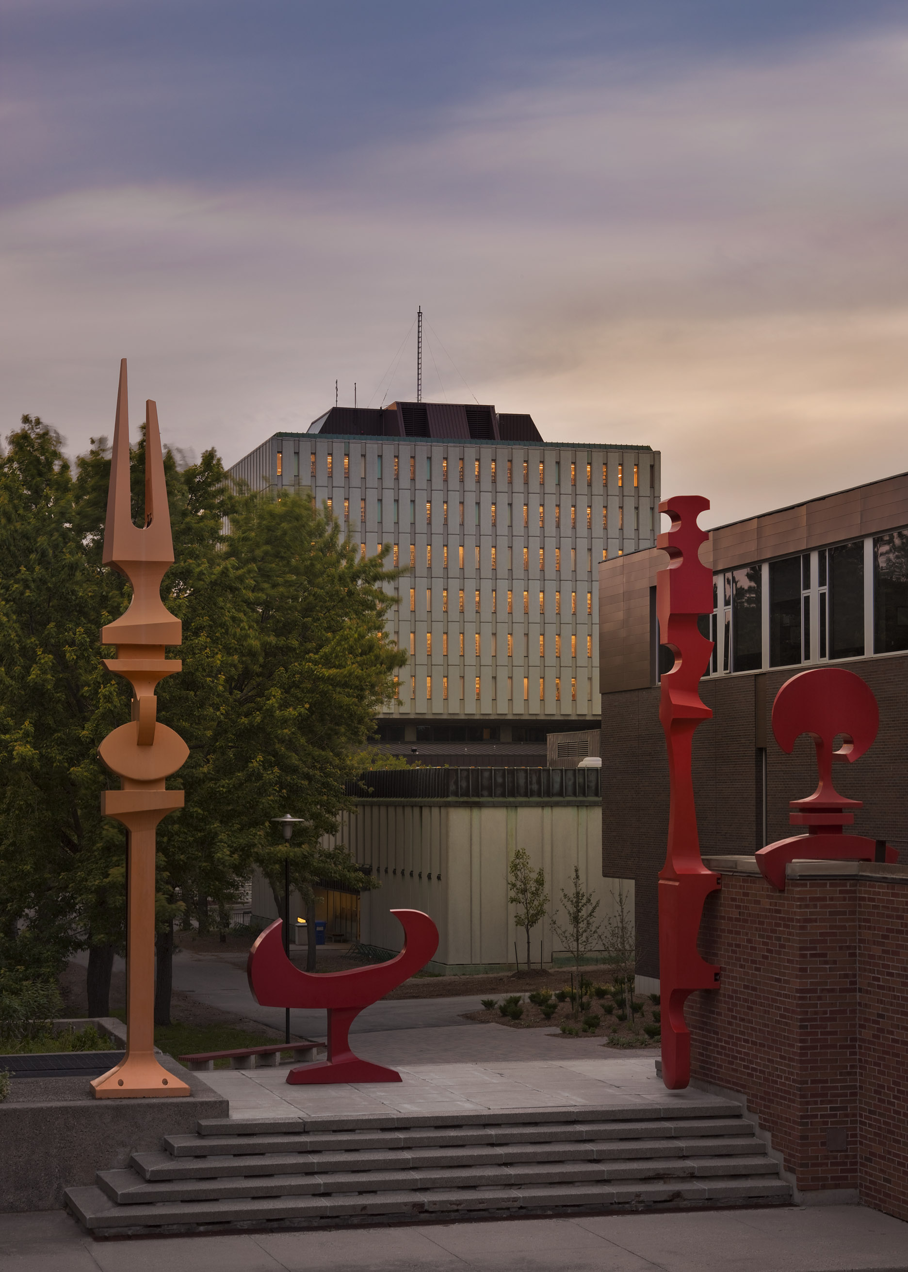 Dana Porter Arts Library at the University of Waterloo, as seen from the J.G. Hagey Hall of the Humanities in June 2009. The Arts Lecture Hall and the School of Accounting & Finance are also visible to the side. "A Sculpture Enviroment" (1970) by Ron Baird is visible in the foreground.